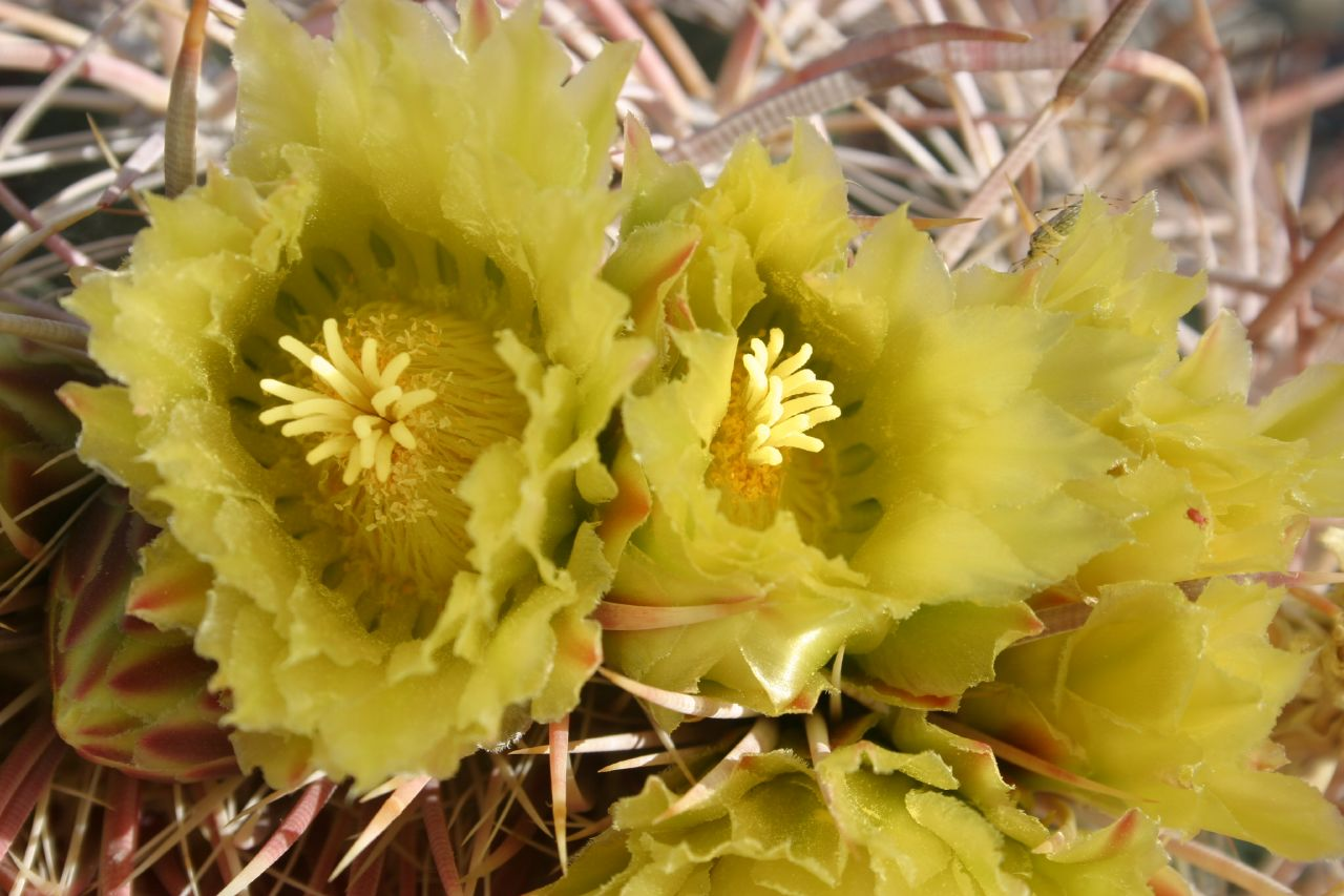 Ferocactus cylindraceus, Coachella Valley, Riverside County, California